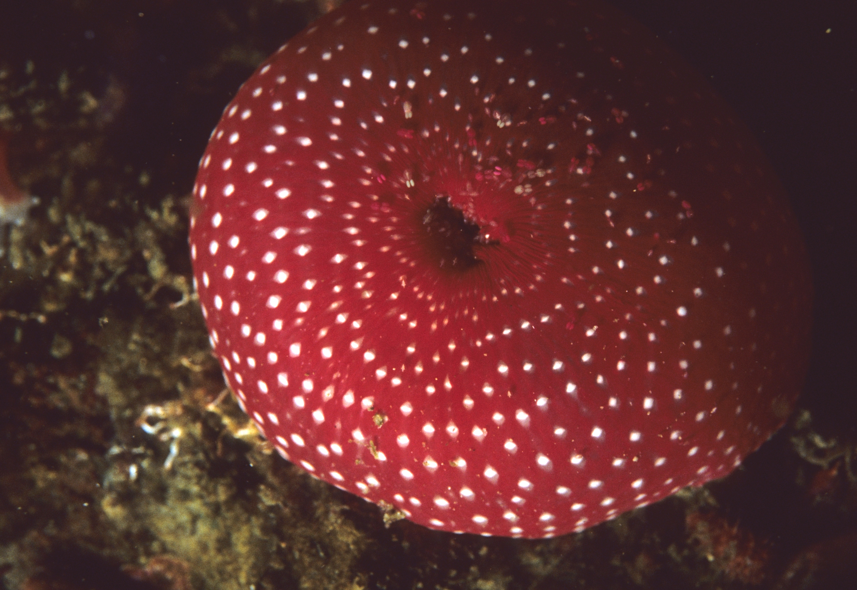 A red sea anemone (Urticina lofotensis syn. Tealia lofotensis). California, Monterey area.